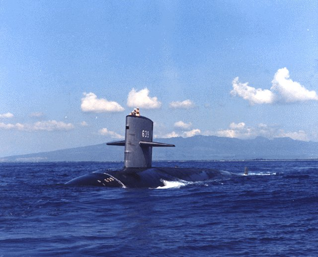 Tautog (SSN-639), underway off the Hawaiian Islands, date unknown. US Navy photo courtesy of ComSubGruNine Website.